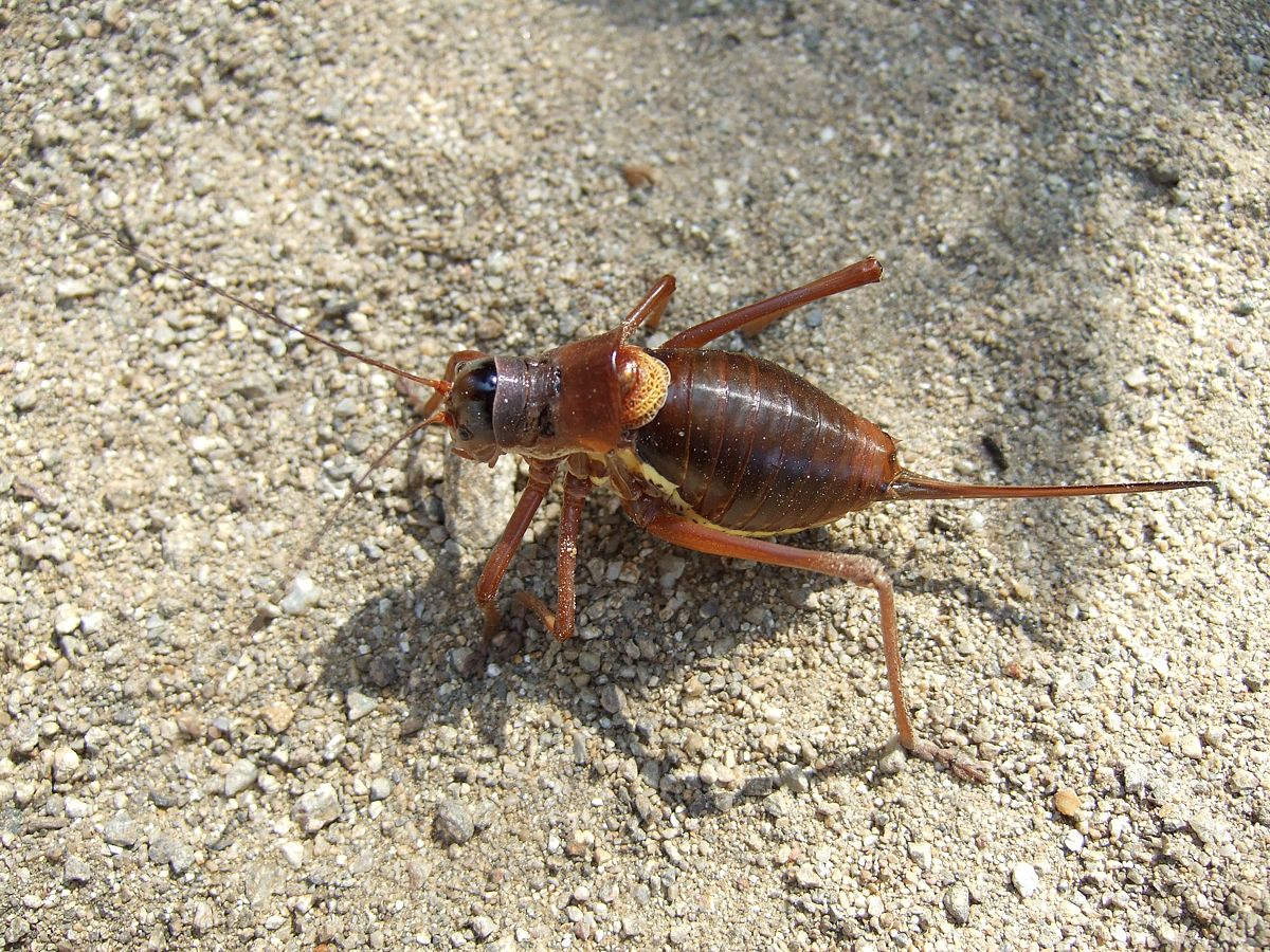 Ephippiger provincialis, female. France, Cote d'Azur, Massive des Maures, La Mourre